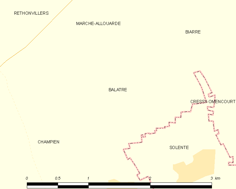 Map of French municipality Balâtre